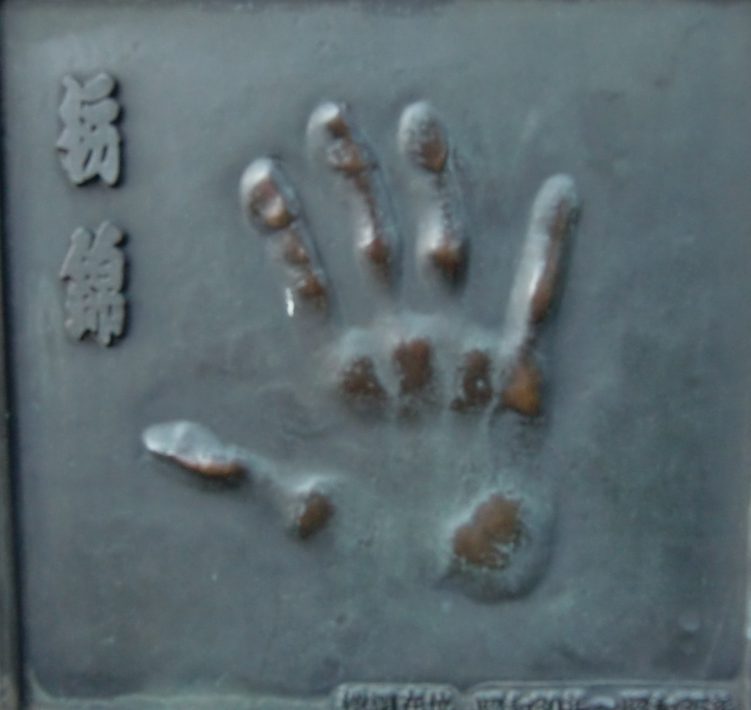 handprint of wrestler on a public monument in Ryogoku Japan